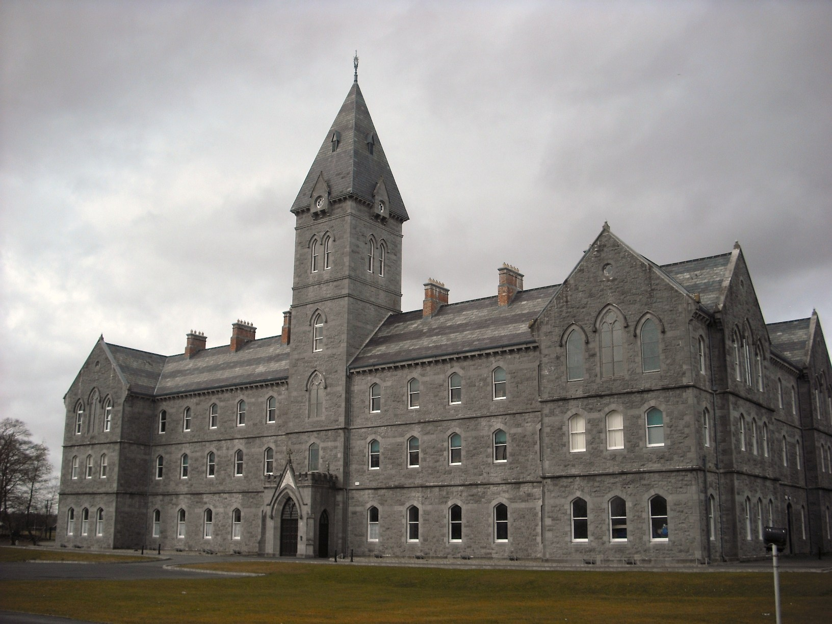 St. Flannan's College, one of the oldest extant school buildings in Ireland. Front of the college, March 2010.